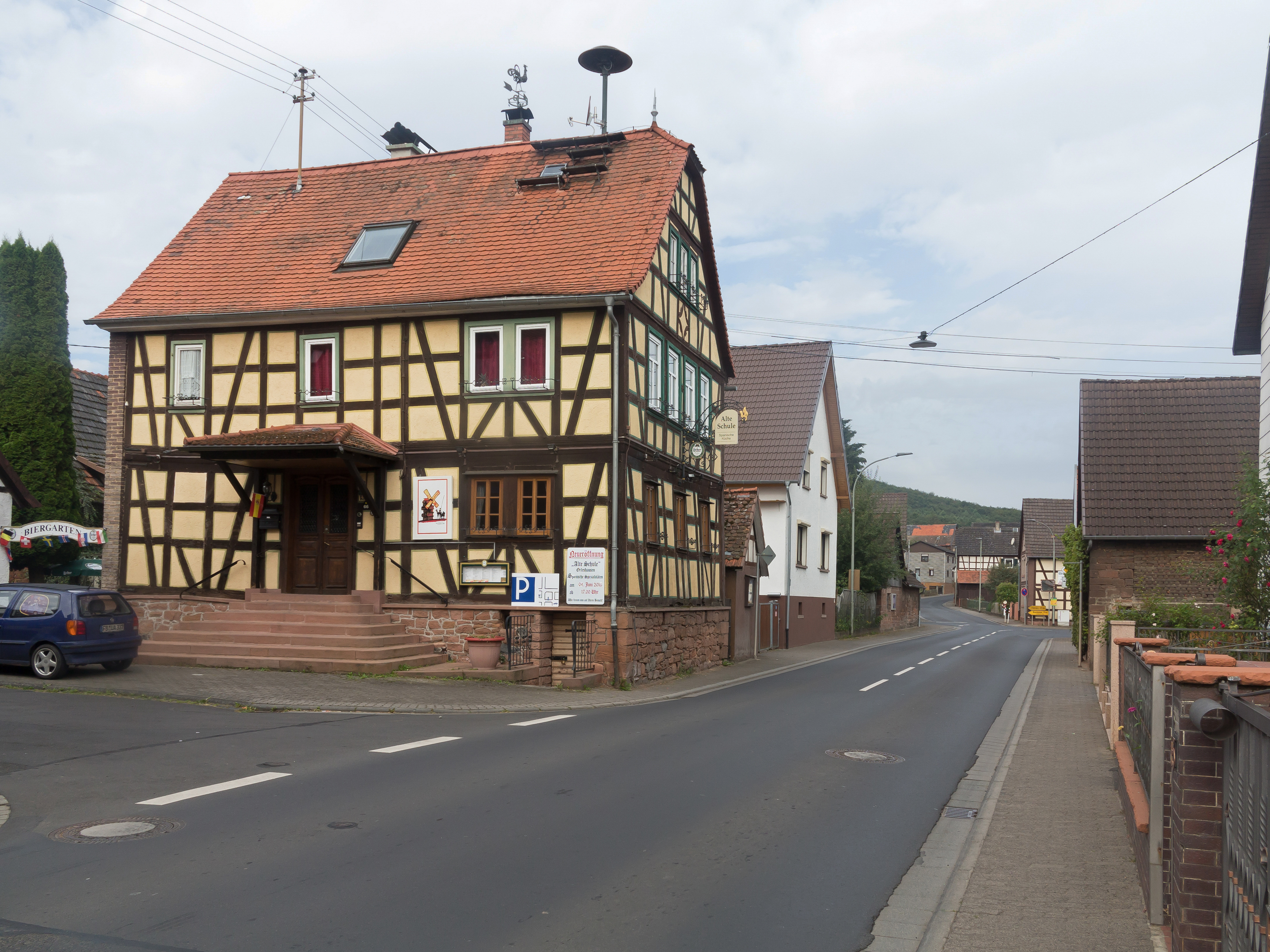 Orleshausen, inn: die Alte Schule